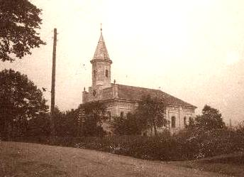 Lutheran Church in Orlová